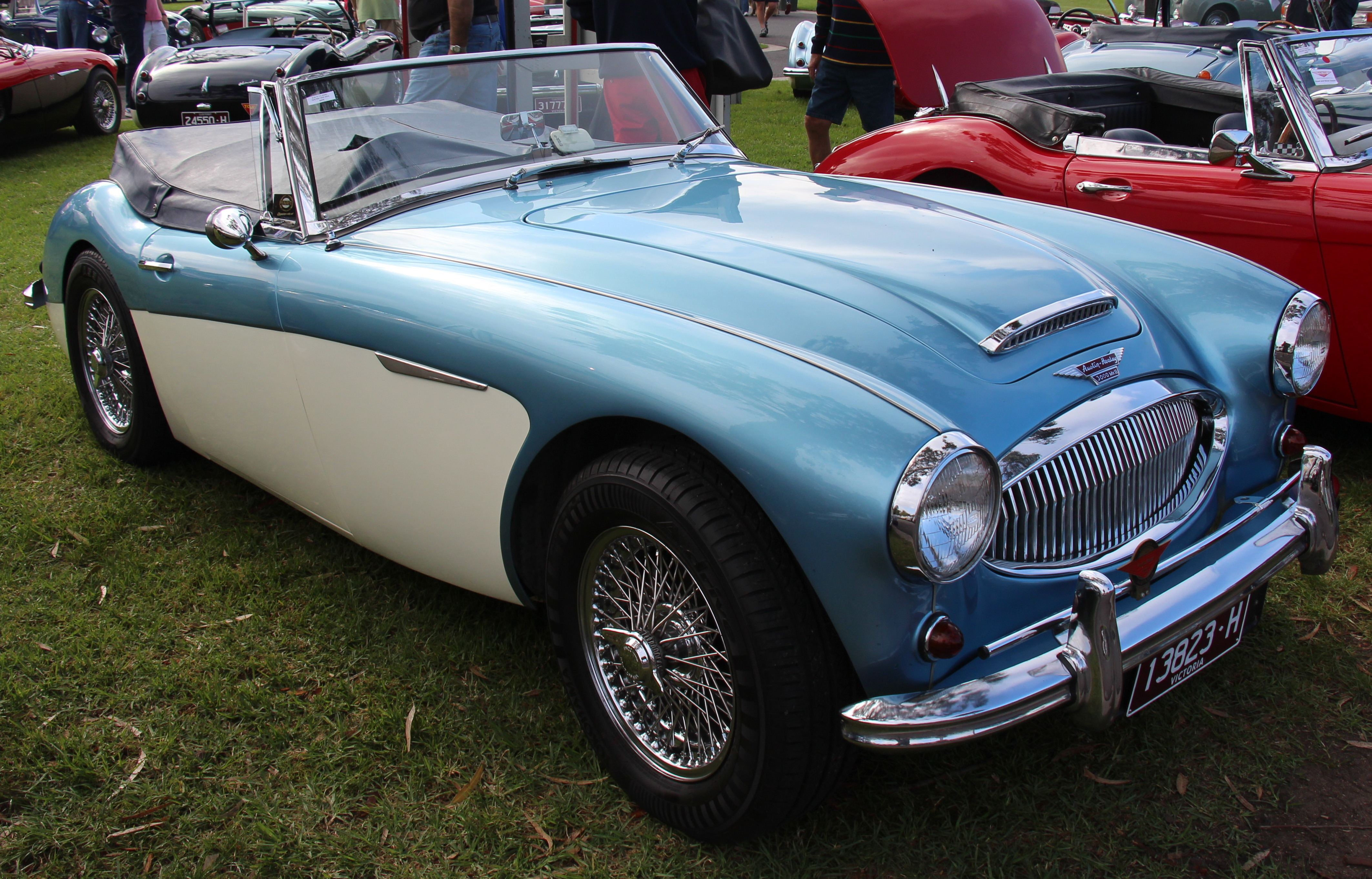 The Healey 3000 was the last of the 3 Big Healeys, the 1st was the 100 (a 4 cyl), then the 100-6 and now the last, the 3000, it was built from 1959-67 and went through a few changes; 1959 MkI; Austin Healey badge above the grille, 3000 in the grille, Engine; 2912cc, twin SUs, 2 seater; BN7 and 4 seater BT7. 1961 MkII; Engine; 2912cc, triple SUs, 2 seater; BN7 and 4 seater; BT7. 1962 MkII; Austin Healey Mk II badge above the grille, Back to 2 carbys, new grille now with vertical bars, wind up windows, only 2+2 BJ7 available. 1963 MkIII; Austin Healey Mk III badge above grille, walnut dash, Engine; 2912cc twin SUs, BJ8 2+2